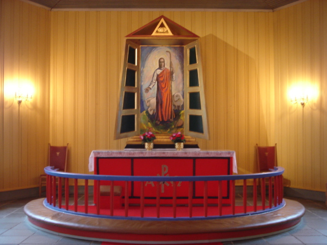 Altar in Kautokeino Church, Norway